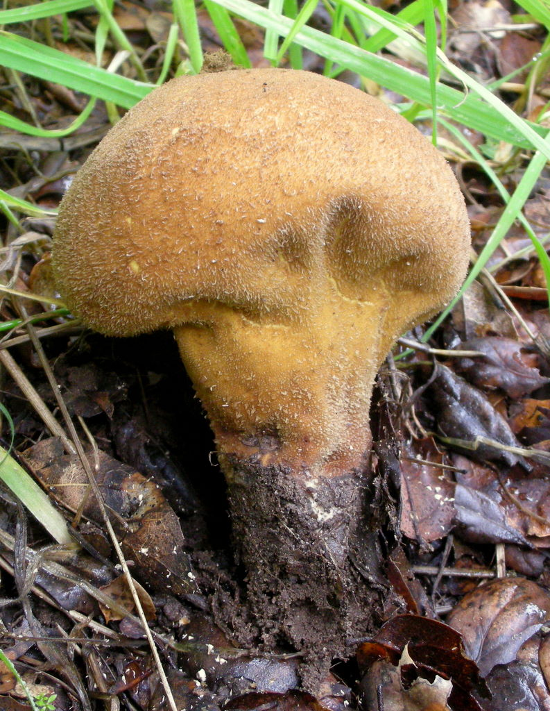 A fruit body of the puffball fungus Lycoperdon molle Pers. Specimen photographed in Fort Ord, Seaside, California, USA.